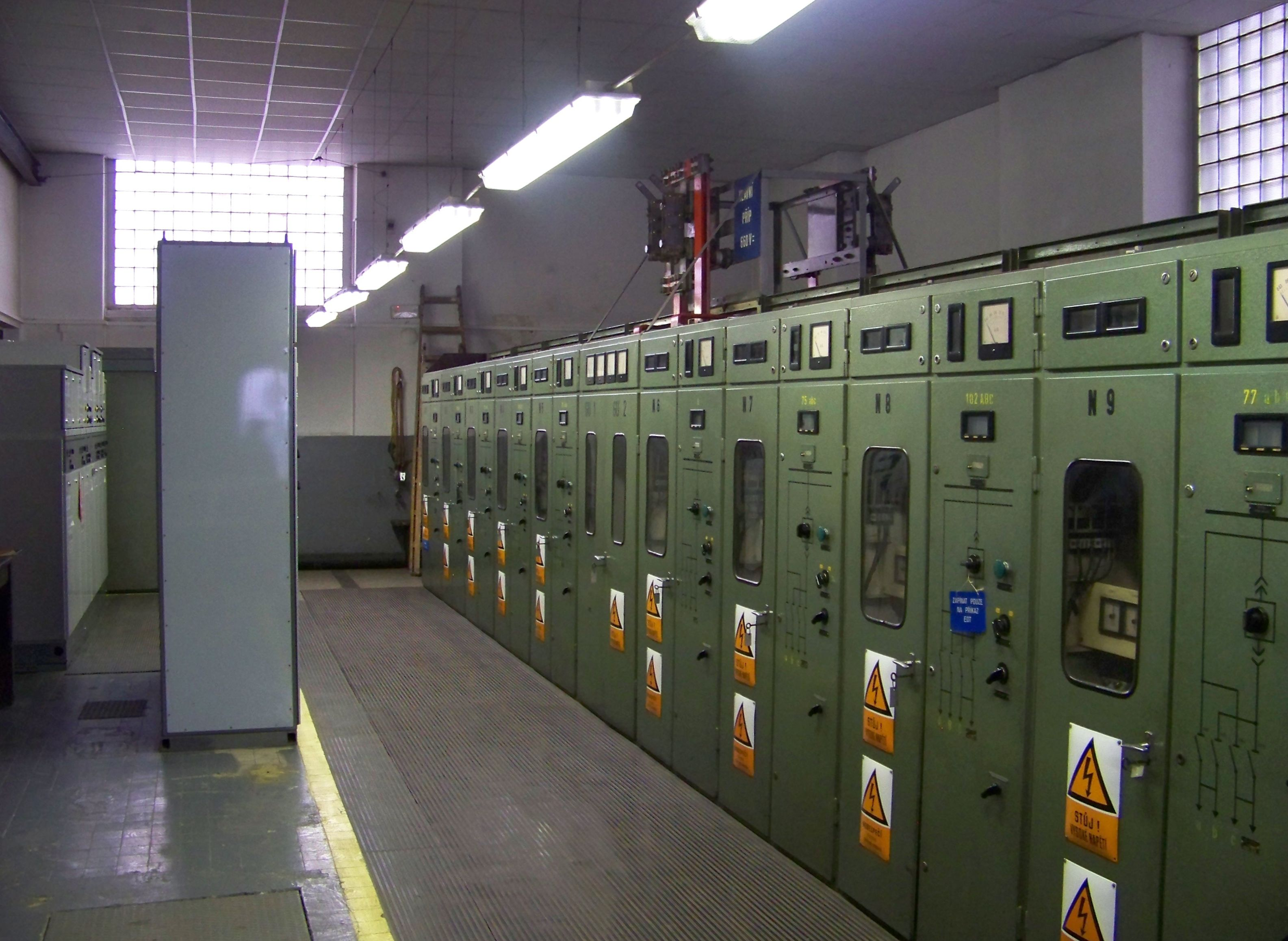 Prague-Strašnice, Czech Republic. Strašnice tram depot, open doors day. Electrical station. - OpenStreetMap (Info)